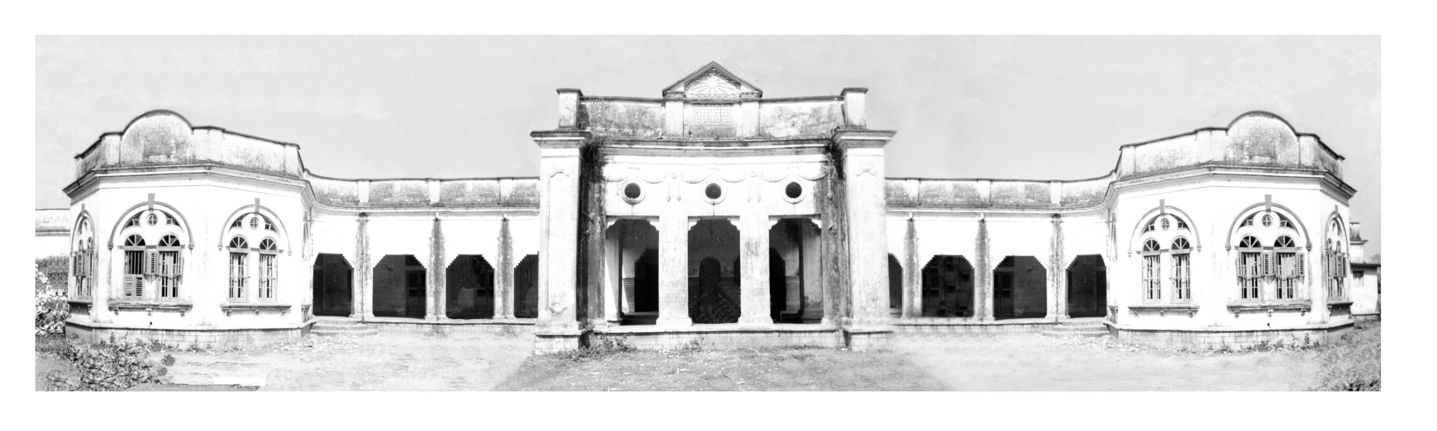 Picture of Chowni House